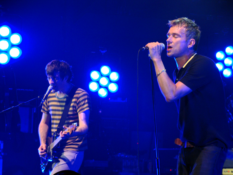 Graham Coxon and Damon Albarn of Blur on stage at the Newcastle Academy, June 2009.